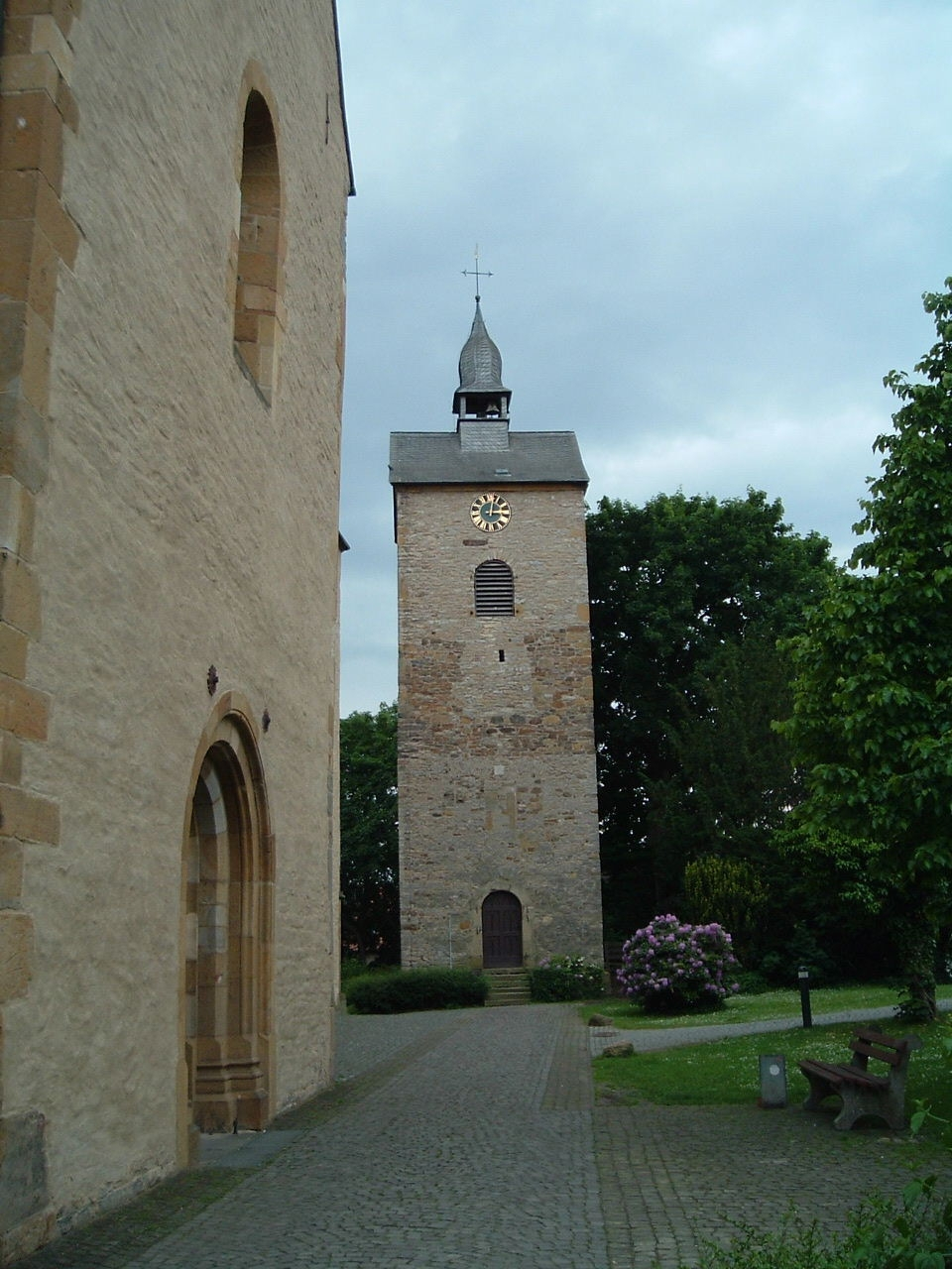 Church tower in town of Enger, District of Herford, North Rhine-Westphalia, Germany.